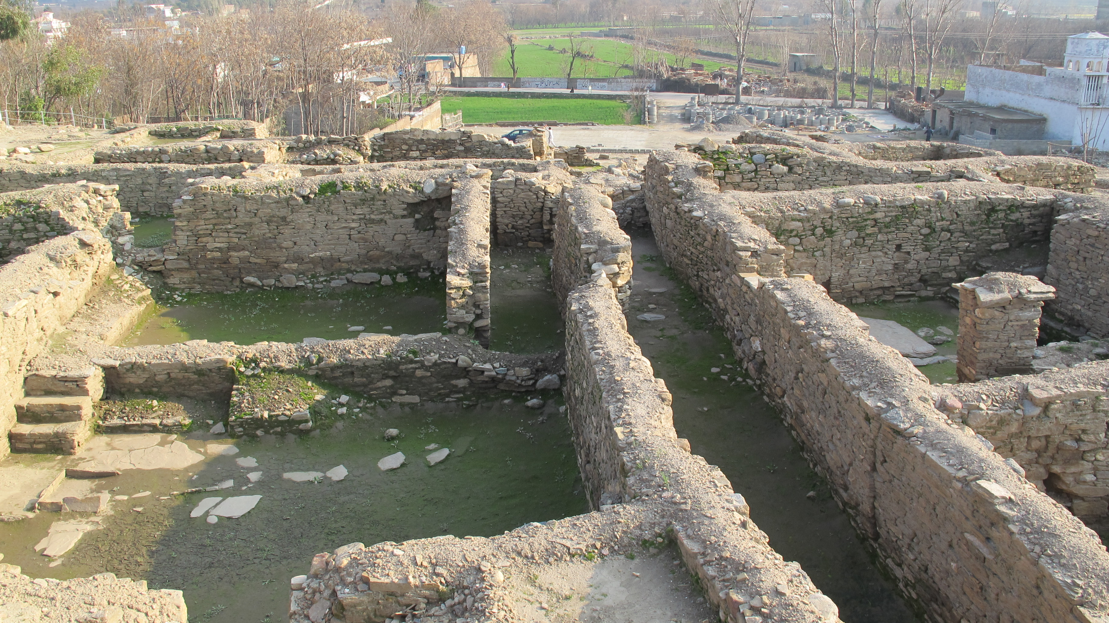 Barikot Ghundai This is a photo of a monument in Pakistan identified as the KPK-80